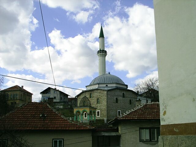 Town of Travnik in the central part of Bosnia-Herzegovina